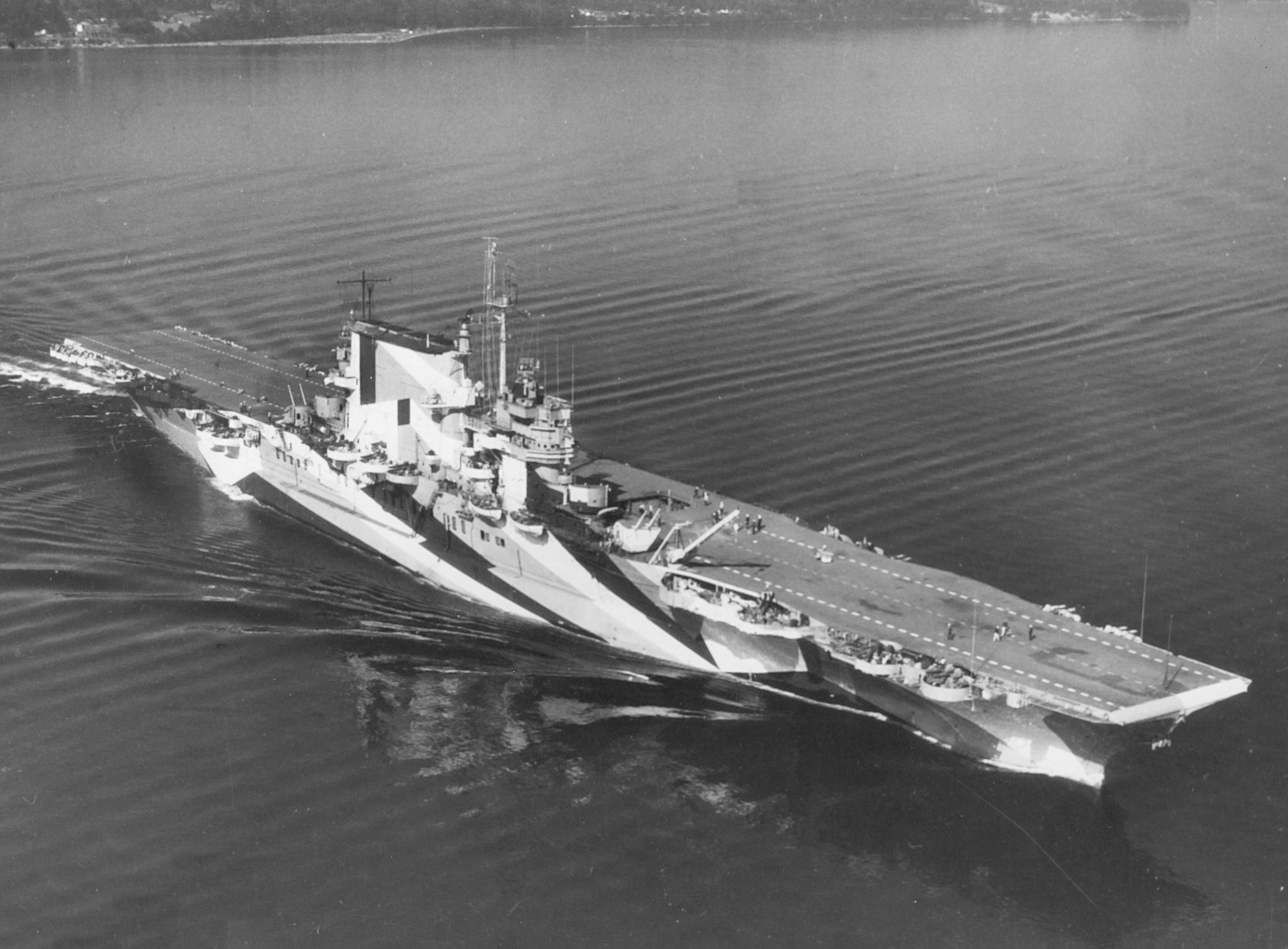 The U.S. Navy aircraft carrier USS Saratoga (CV-3) underway in Puget Sound, Washington (USA), making 12 knots, 7 September 1944. Saratoga wears her single Camouflage Measure 32 Design 11A.